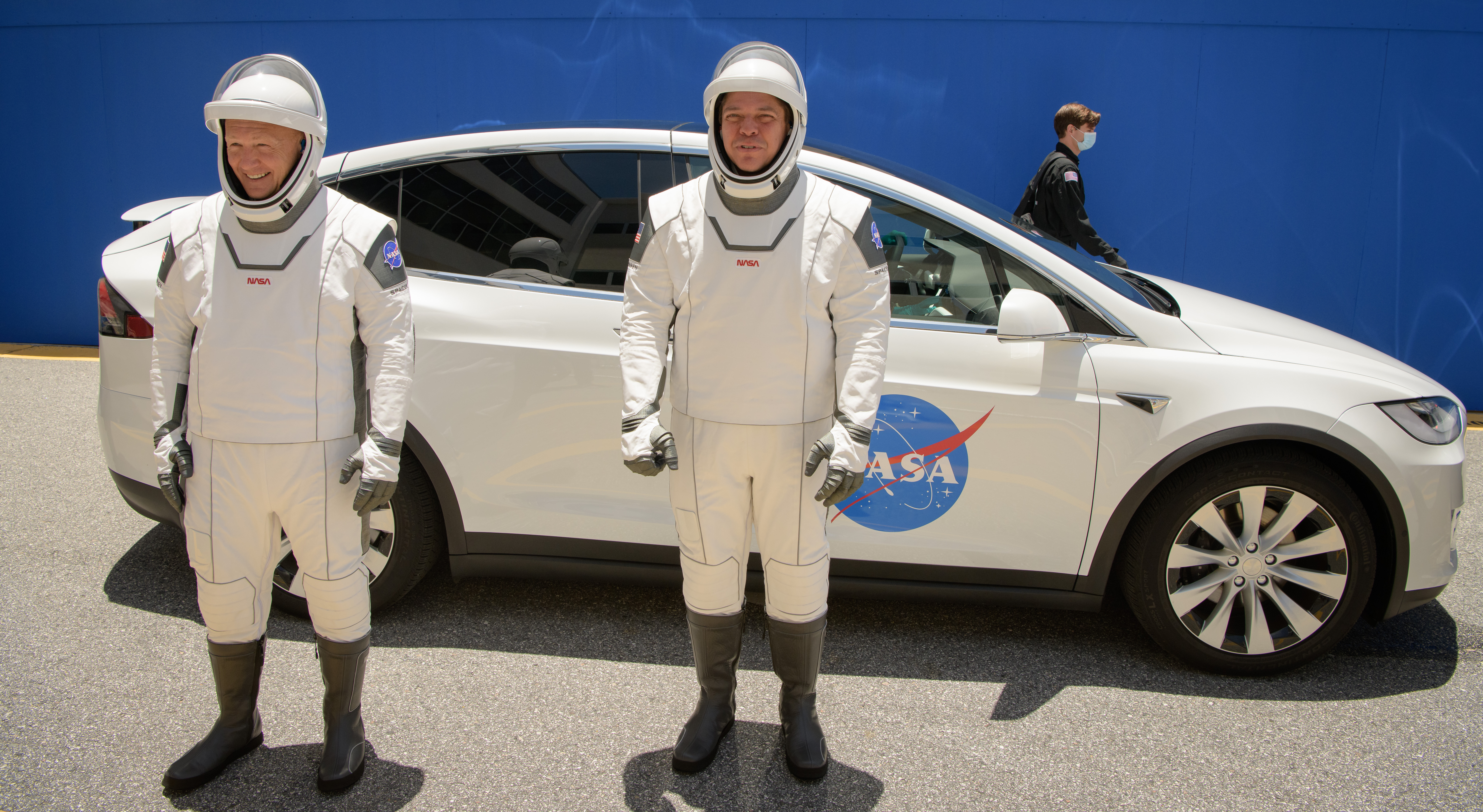 NASA astronauts Douglas Hurley, left, and Robert Behnken, wearing SpaceX spacesuits, are seen as they depart the Neil A. Armstrong Operations and Checkout Building for Launch Complex 39A during a dress rehearsal prior to the Demo-2 mission launch, Saturday, May 23, 2020, at NASA’s Kennedy Space Center in Florida. NASA’s SpaceX Demo-2 mission is the first launch with astronauts of the SpaceX Crew Dragon spacecraft and Falcon 9 rocket to the International Space Station as part of the agency’s Commercial Crew Program. The test flight serves as an end-to-end demonstration of SpaceX’s crew transportation system. Behnken and Hurley are scheduled to launch at 4:33 p.m. EDT on Wednesday, May 27, from Launch Complex 39A at the Kennedy Space Center. A new era of human spaceflight is set to begin as American astronauts once again launch on an American rocket from American soil to low-Earth orbit for the first time since the conclusion of the Space Shuttle Program in 2011. Photo Credit: (NASA/Bill Ingalls)